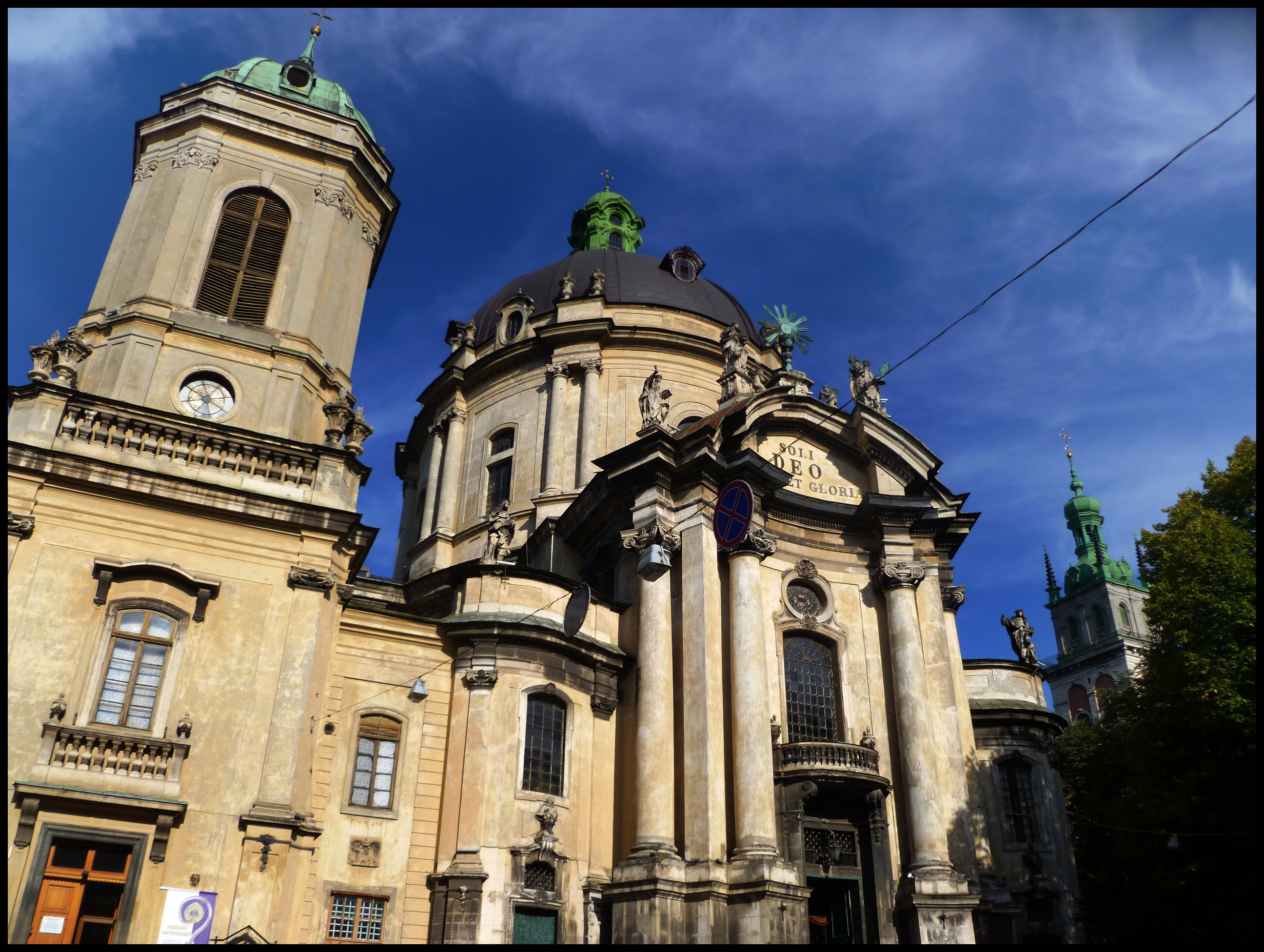 Dominican church, July 2012